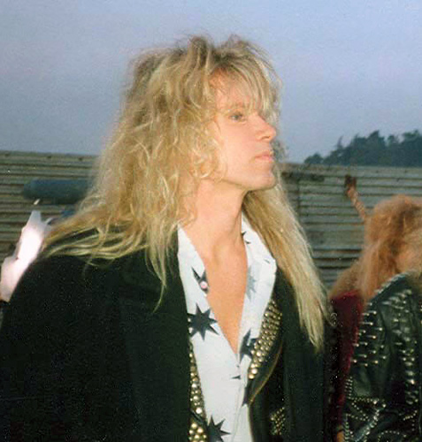 Adrian Vandenberg backstage at the Donnington Festival in 1990